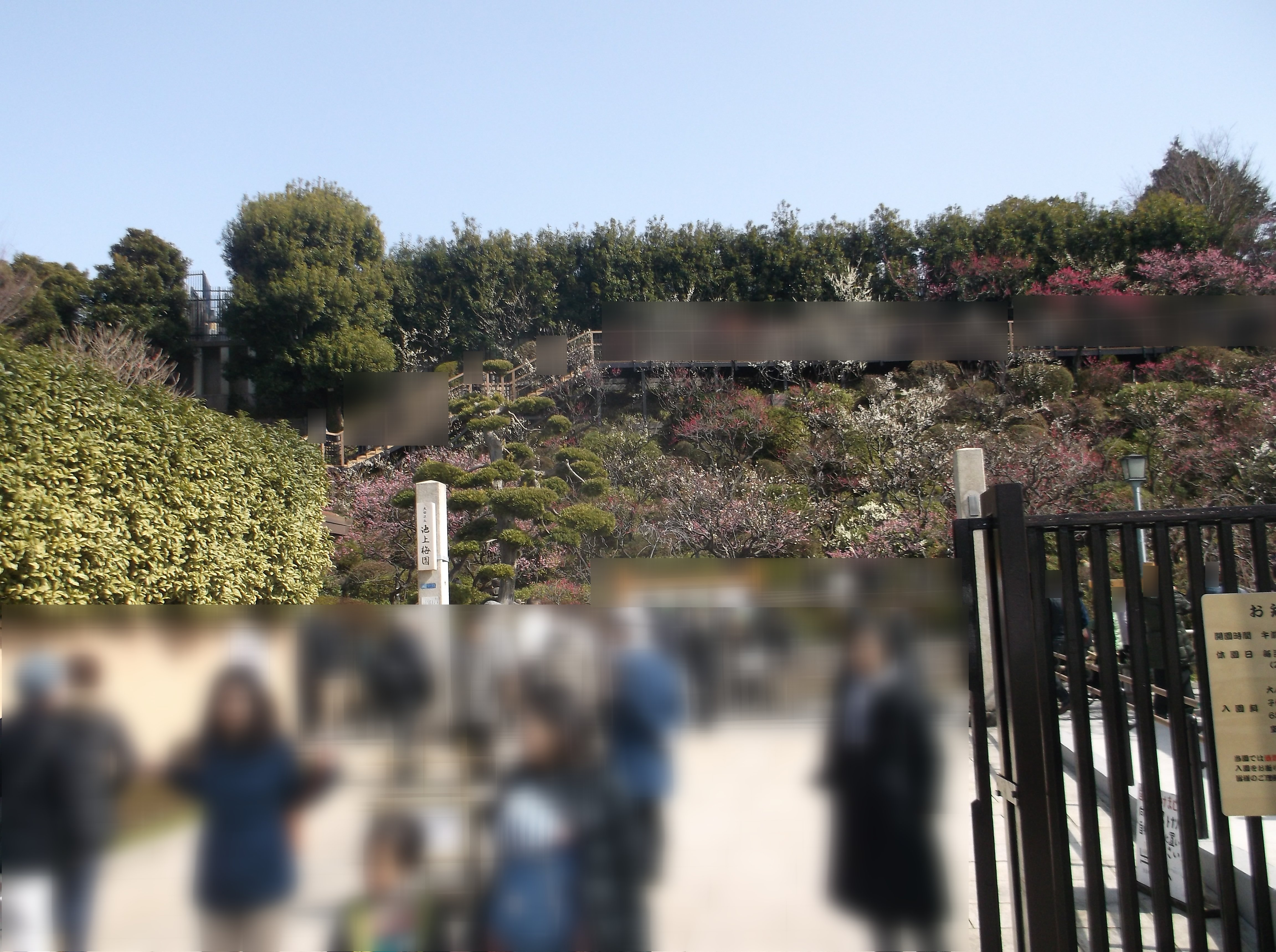 A photo of "Ikegami Baien"(a Japanese plum garden),Ikegami,Ota-ku,Tokyo,Japan.